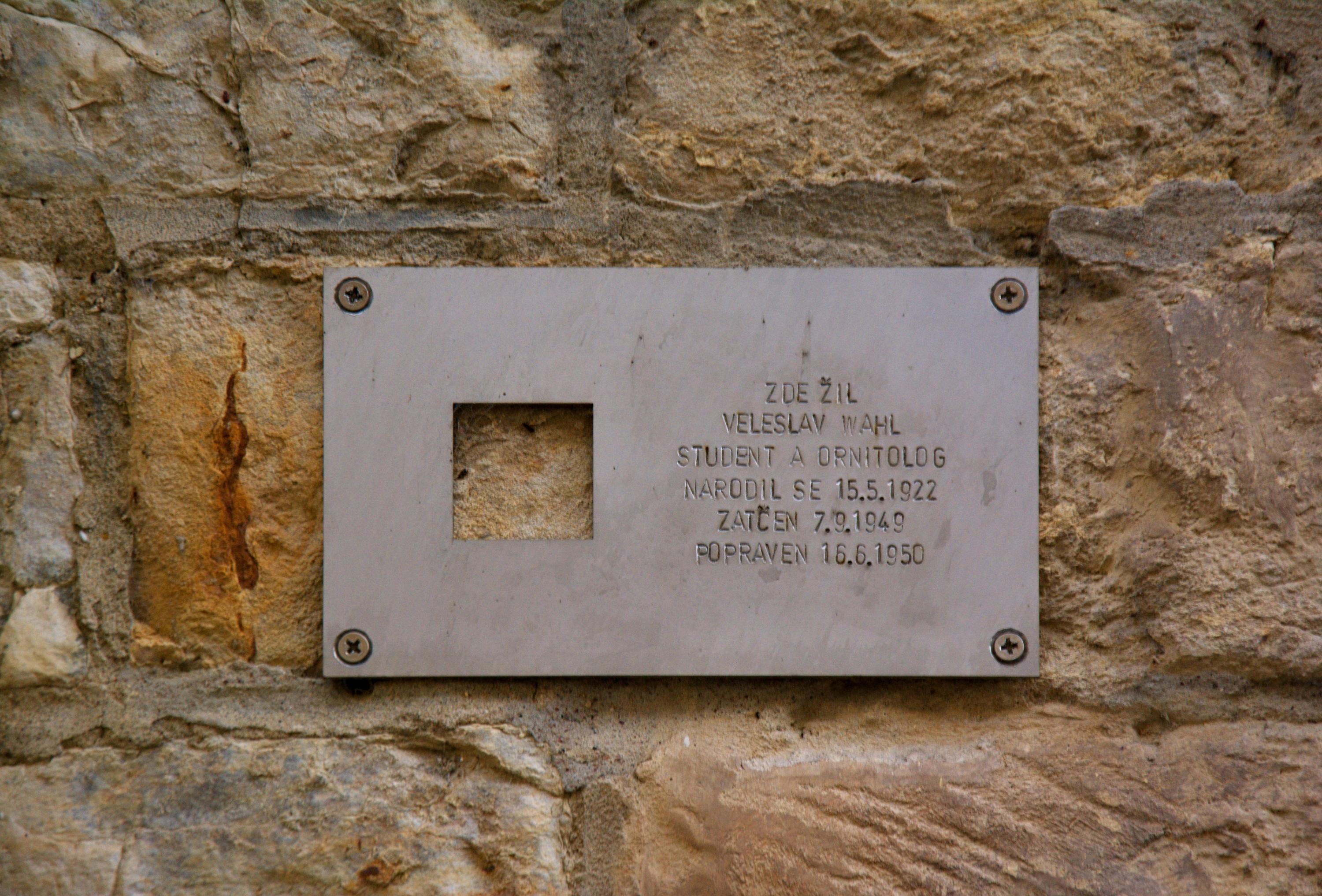 Memorial plaque to Veleslav Wahl (1922-1950), Praha 1-Hradčany, Úvoz 13.